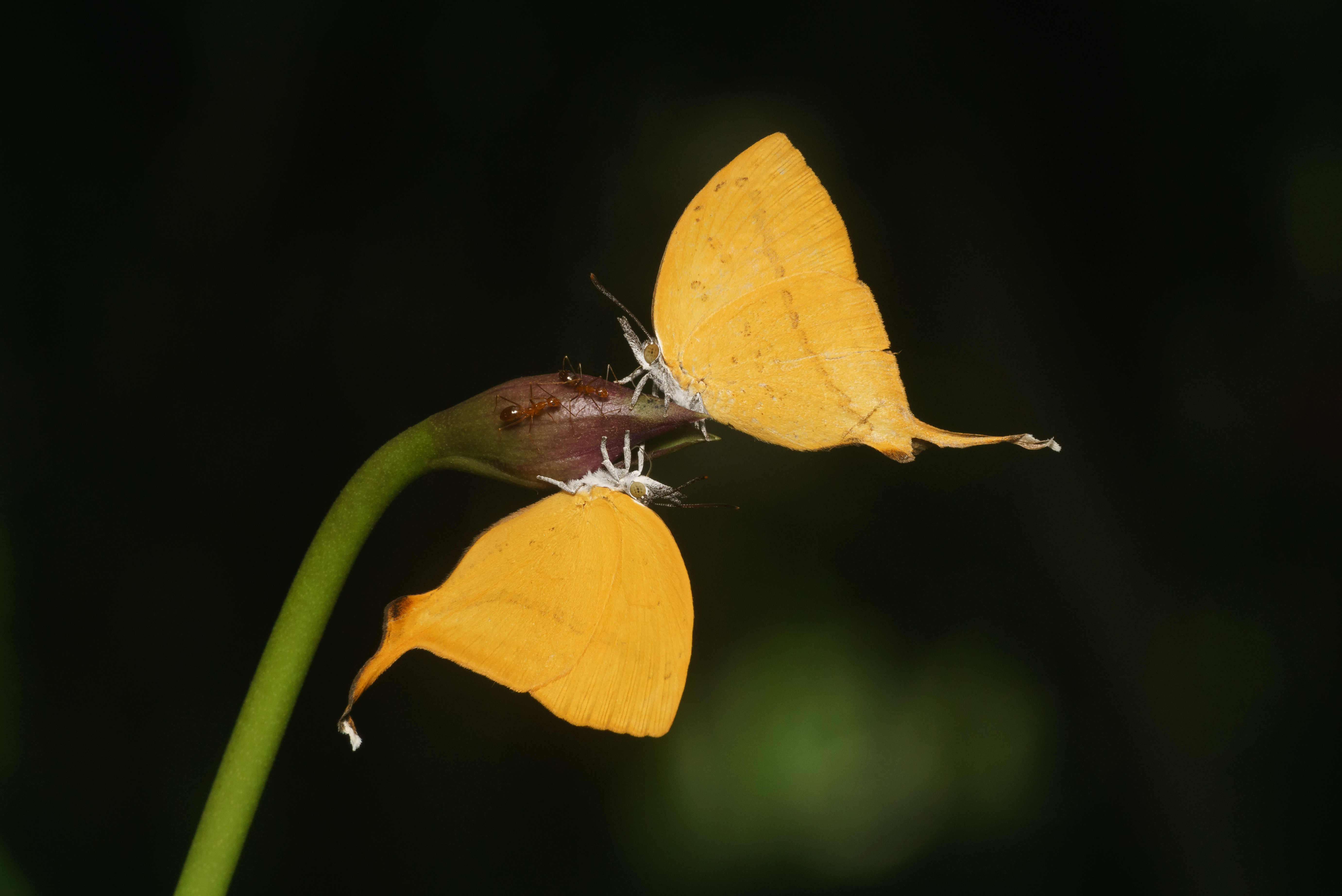 Loxura atymnus, Yamfly, is a species of Lycaenidae found in Asia. Here they are consuming nectar secreted from the extrafloral nectaries of a Philippine orchid bud, stimulated by Yellow crazy ants.